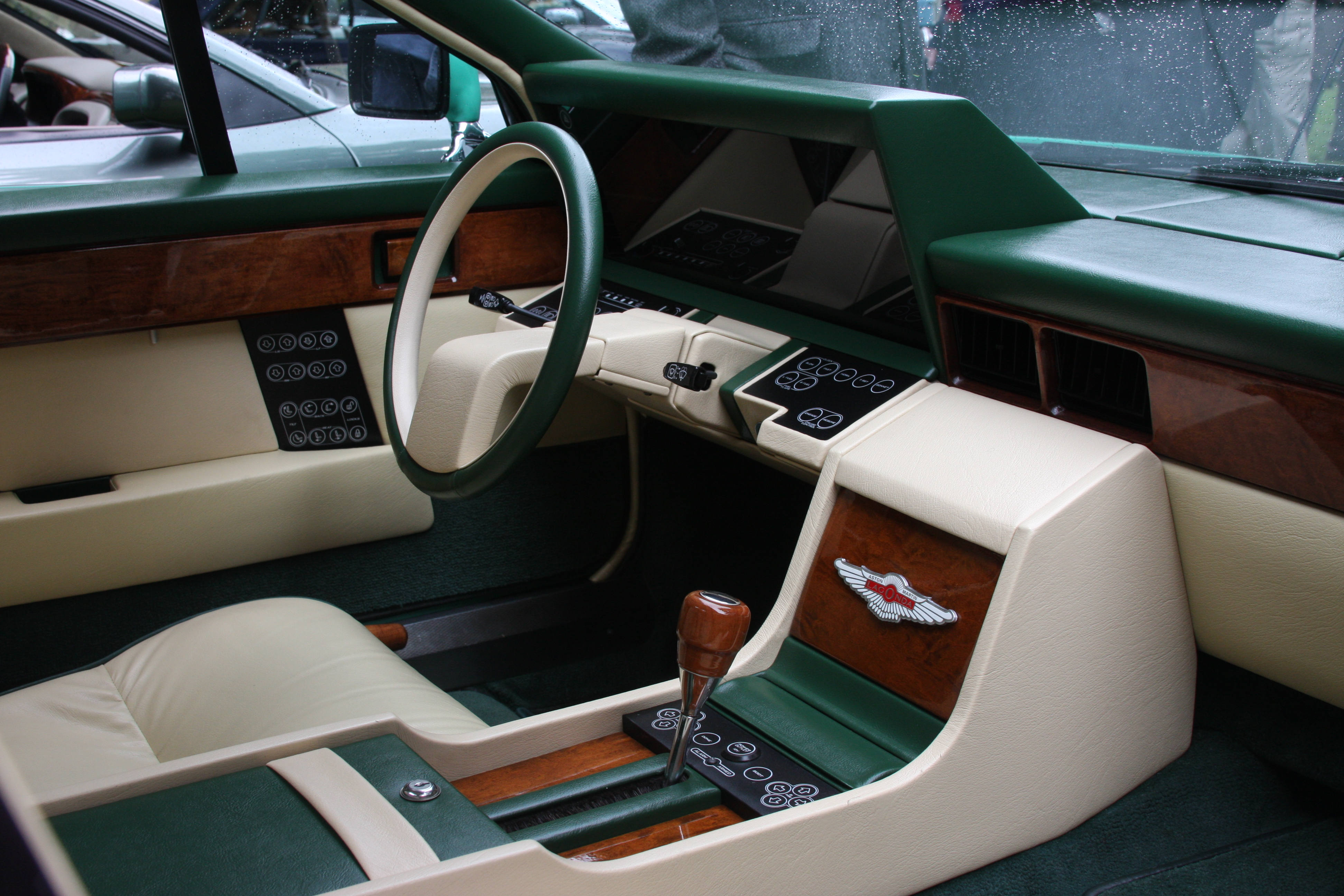 Check out all the buttons on the interior of this Aston Martin Lagonda. Great to see someone keeping one is such fabulous condition.